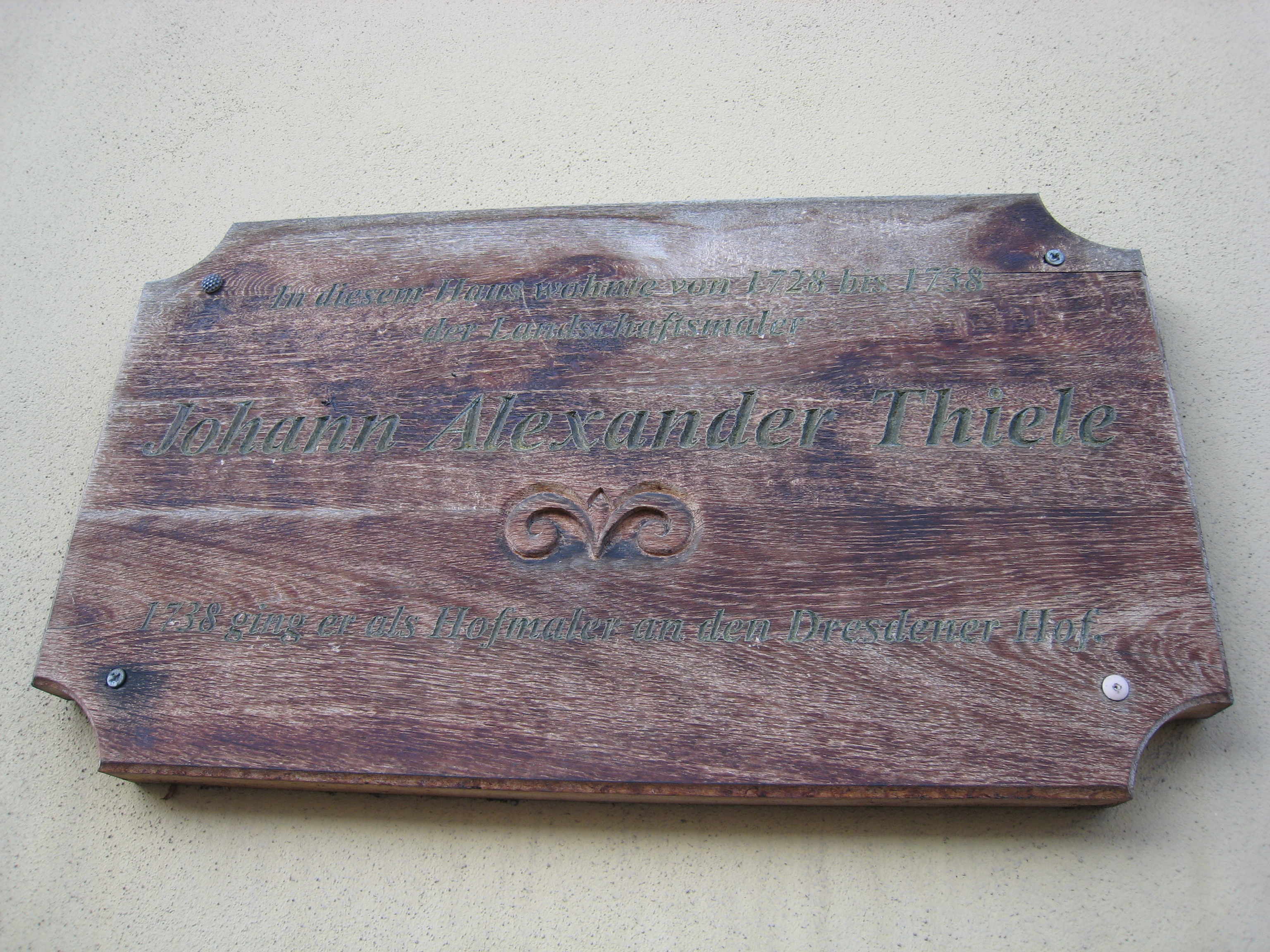 Dwelling-house of Johann Alexander Thiele in Arnstadt (1728-38), Kohlenmarkt 20, house Zum Ritter